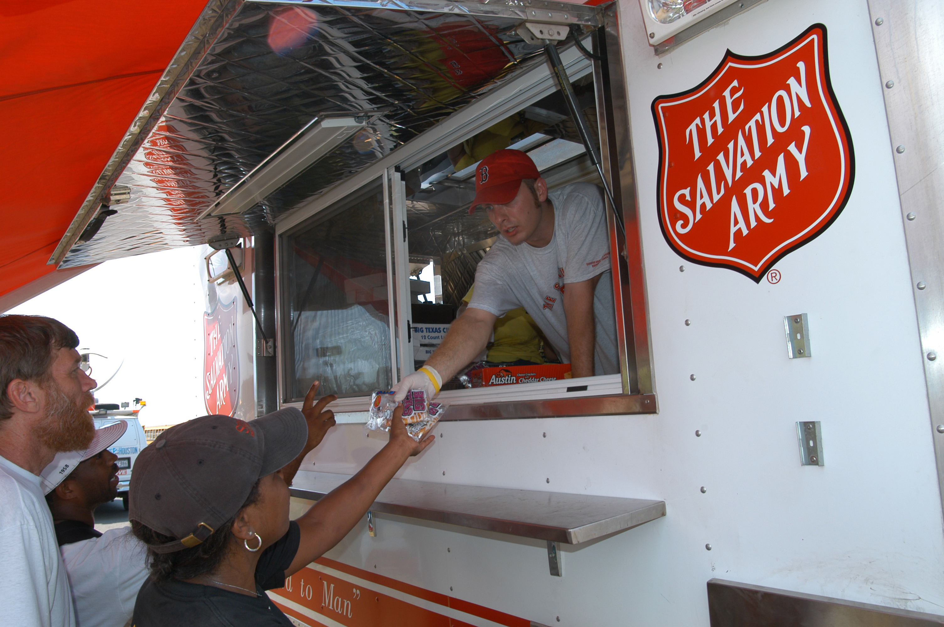 New Orleans, La., August 31, 2005 - A woman evacuee is given food by a Salvation Army volunteer worker as others wait for water and other services. Thousands of rescued victims were left stranded for days by Hurricane Katrina which flooded the area on August 29. New Orleans is being evacuated as a result of floods and damage caused by hurricane Katrina. Photo by Win Henderson / FEMA photo.